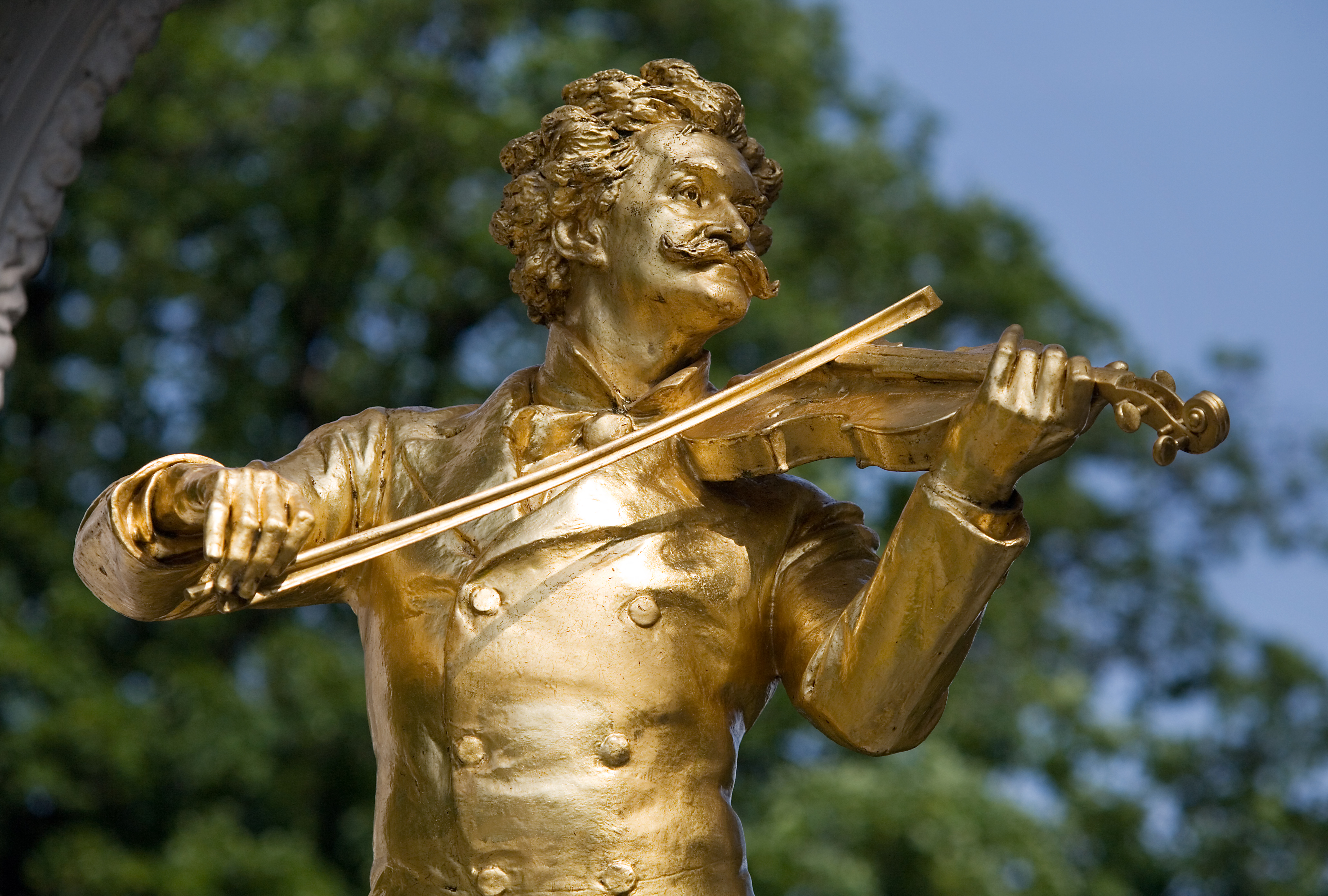 Johann Strauss Monument in Stadt Park, Vienna, Austria